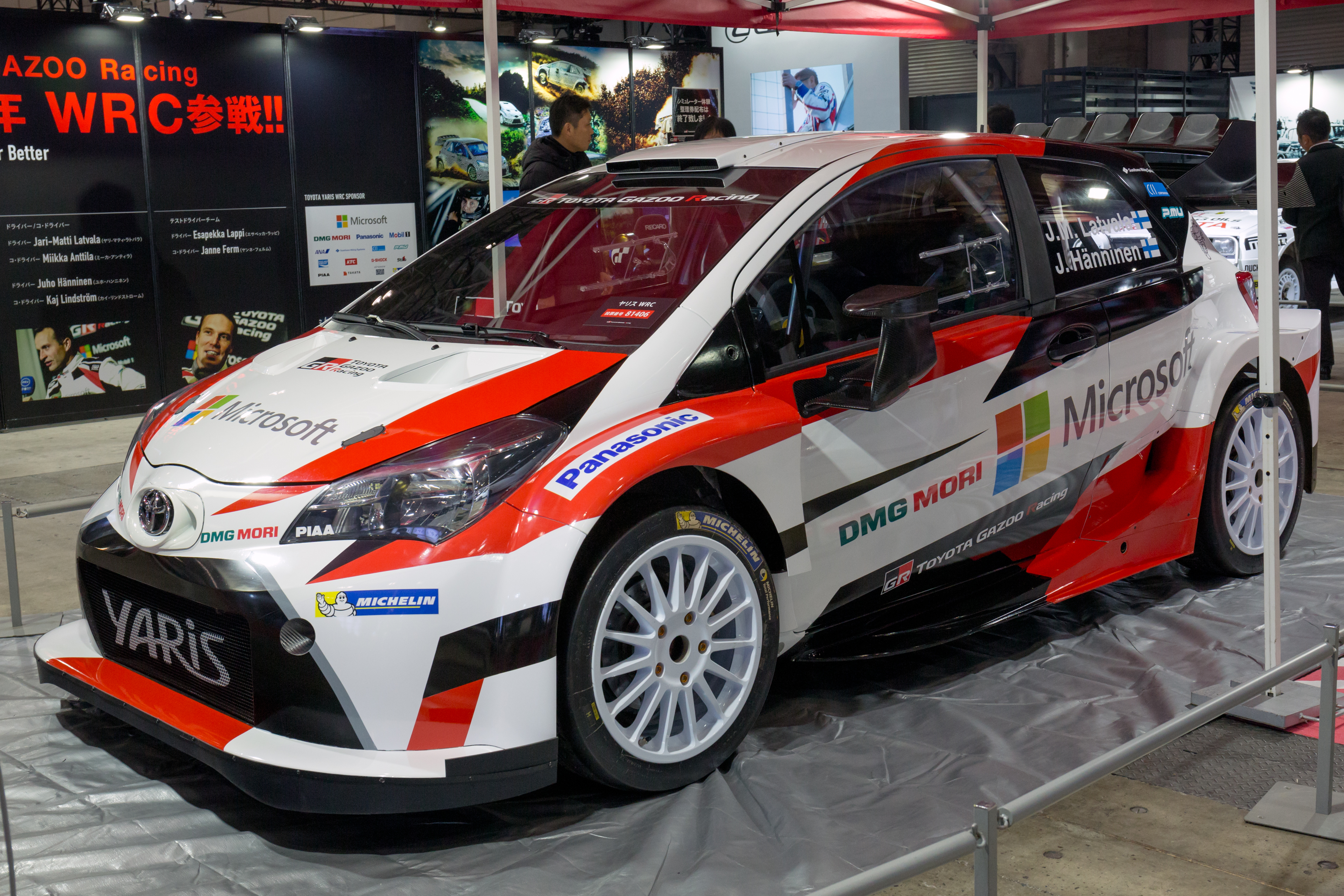 Tokyo Auto Salon 2017: 2017 Toyota Yaris WRC